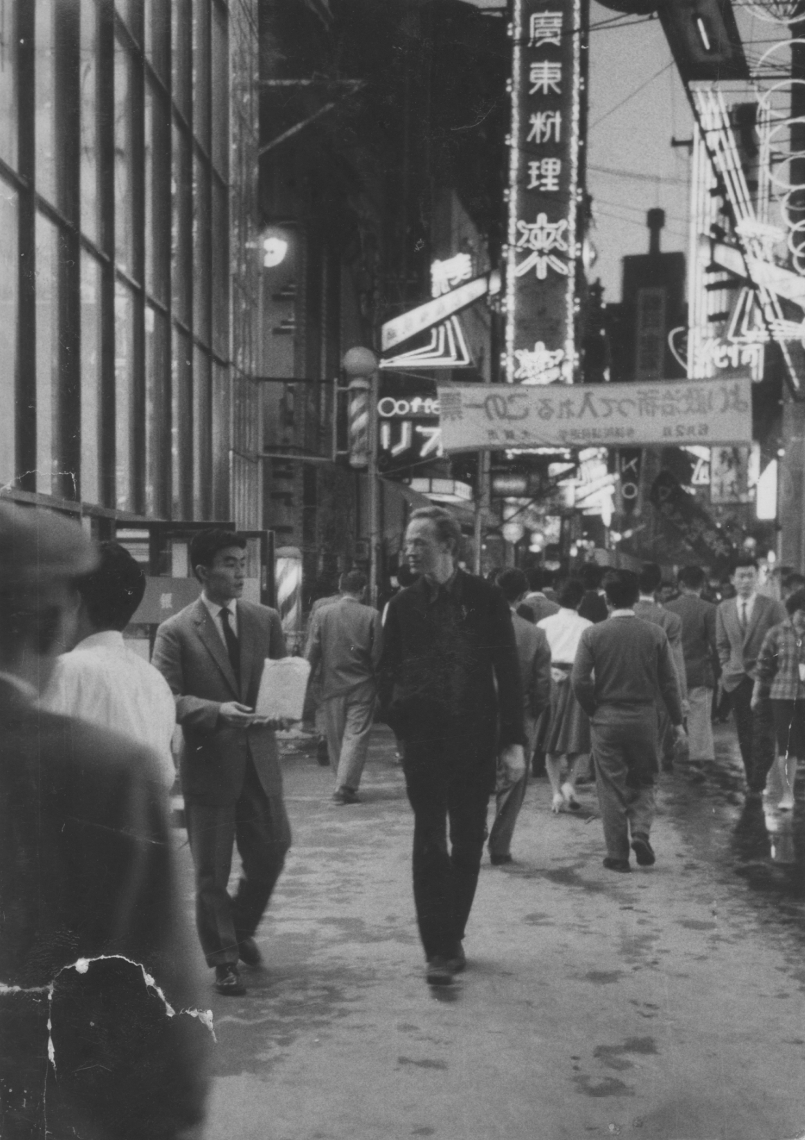 The foto is of Christo Coetzee and Michio Yoshihara (son of Jiro Yoshihara), taken at Osaka in 1959. The foto is pasted in a diary owned by Christo and Ferrie Binge-Brecher and annotated on the page's verso by her in ball point pen: "Christo en Michio Yoshihara - OSAKA, JAPAN, 1959 - een van my geliefkoosde fotos - van hom!!" The original photo is black and white, size 11.6 by 8.3 cm.